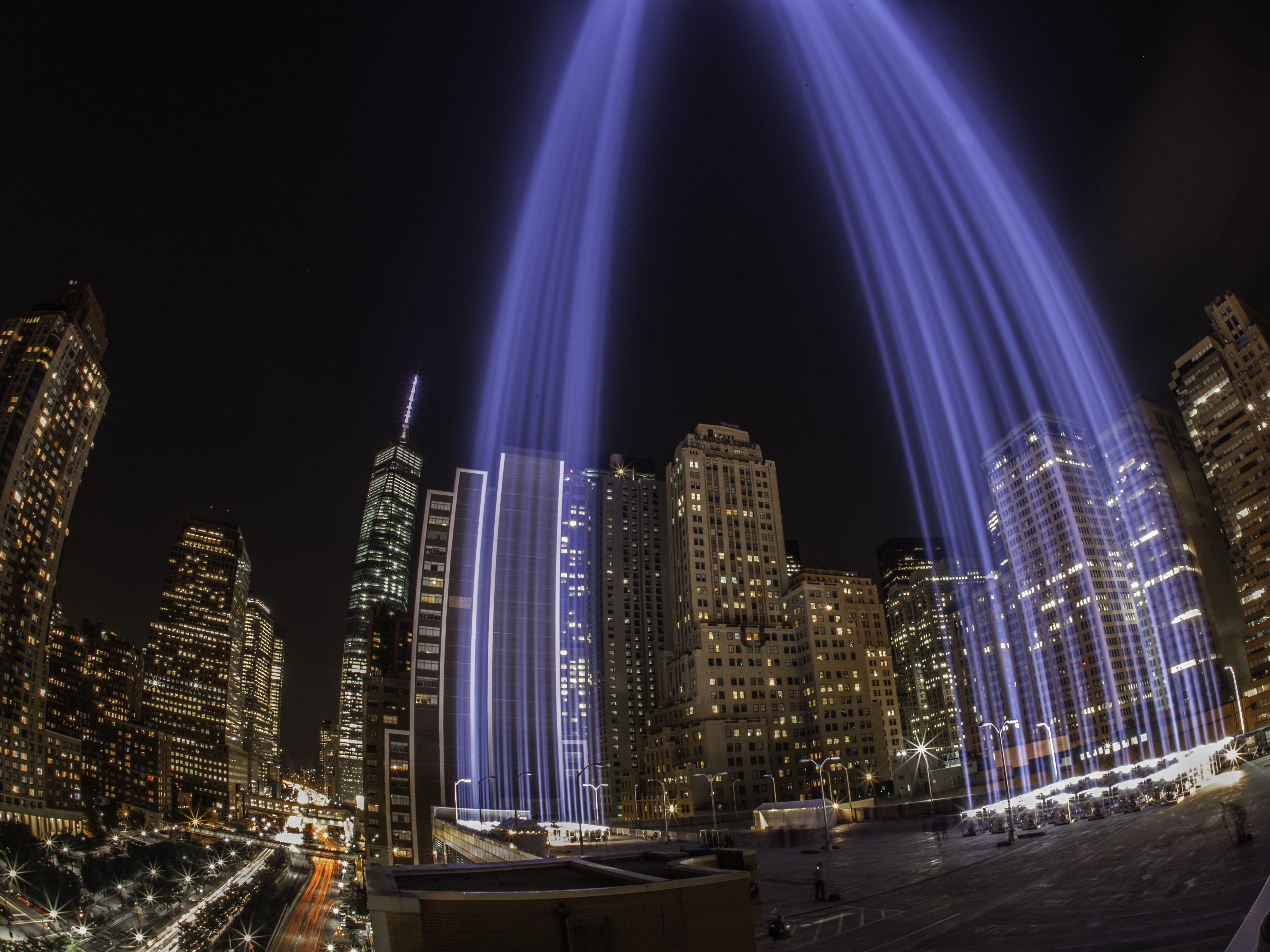 September 11th Tribute In Light 2014